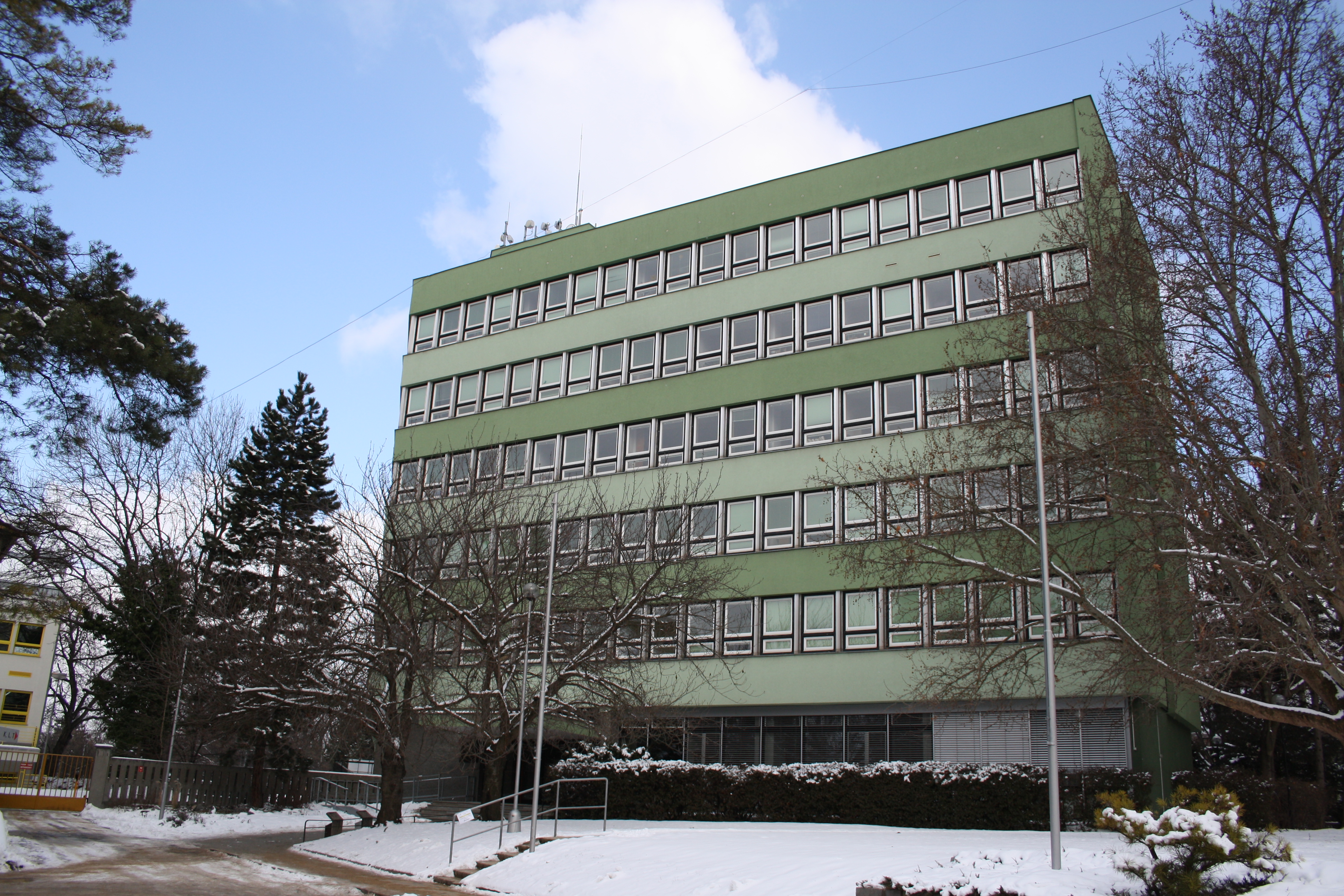 Front view of Faculty of Agronomy at MENDELU in Brno.